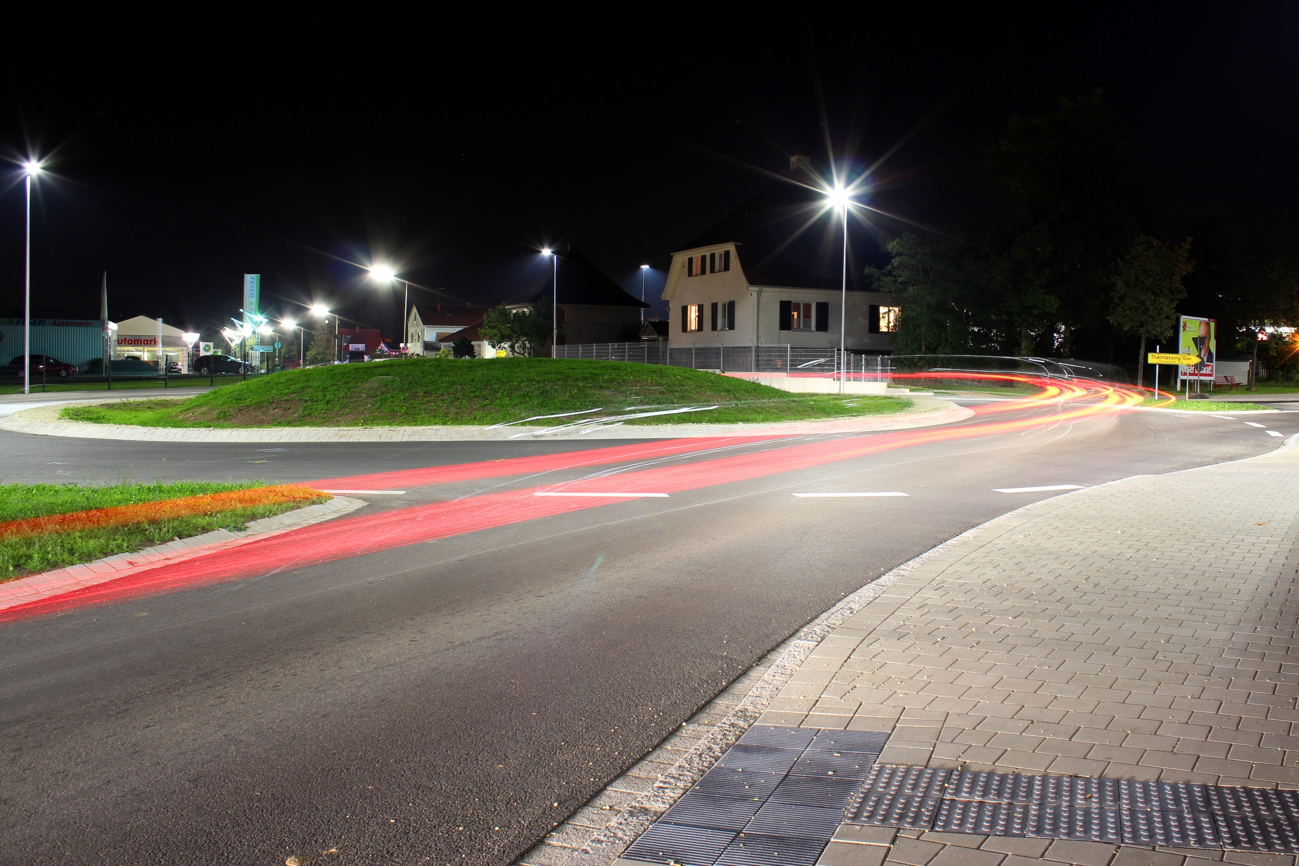 Heideck roundabout at night